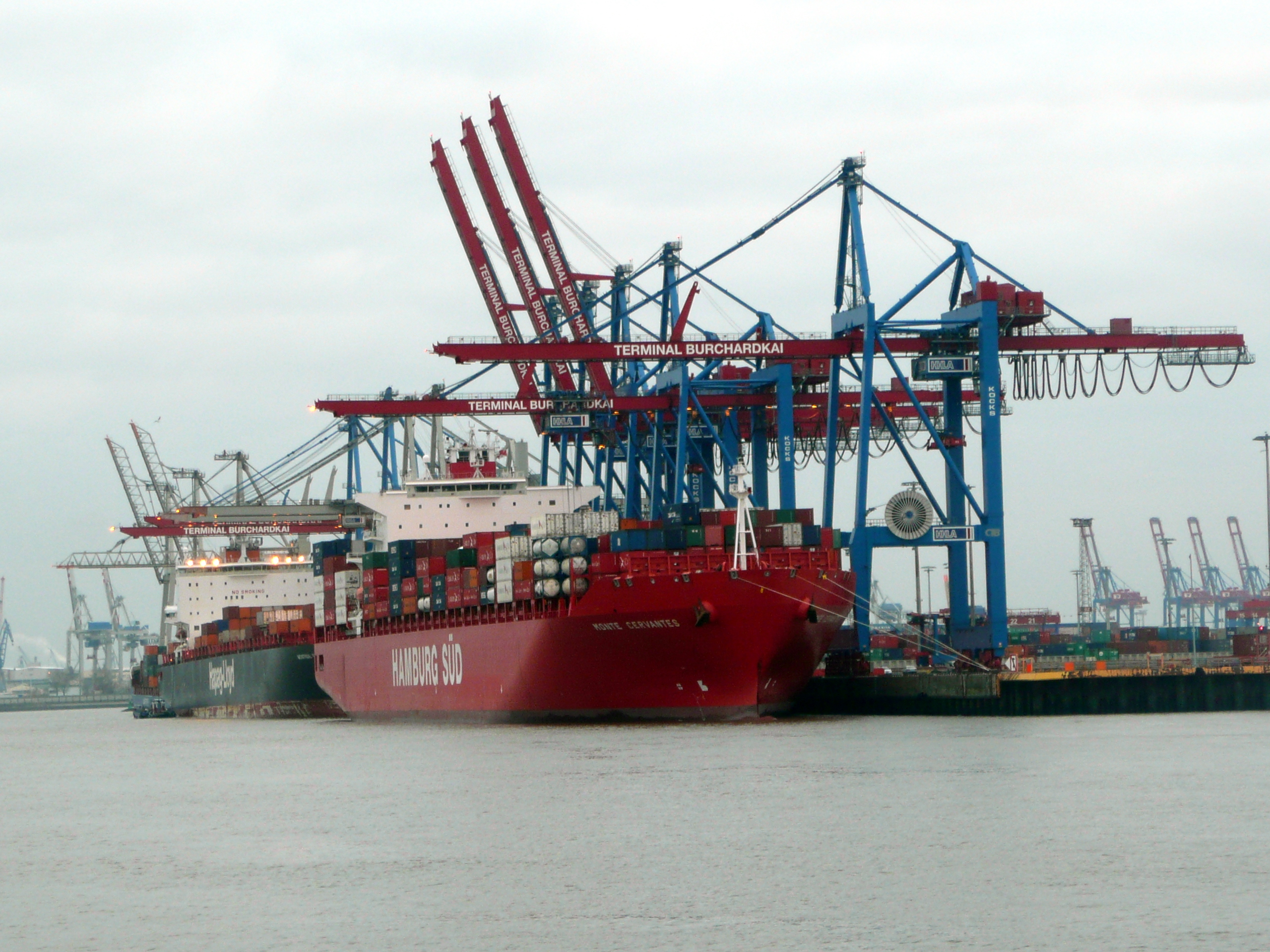 Container ship Monte Cervantes, Container Terminal Burchardkai.